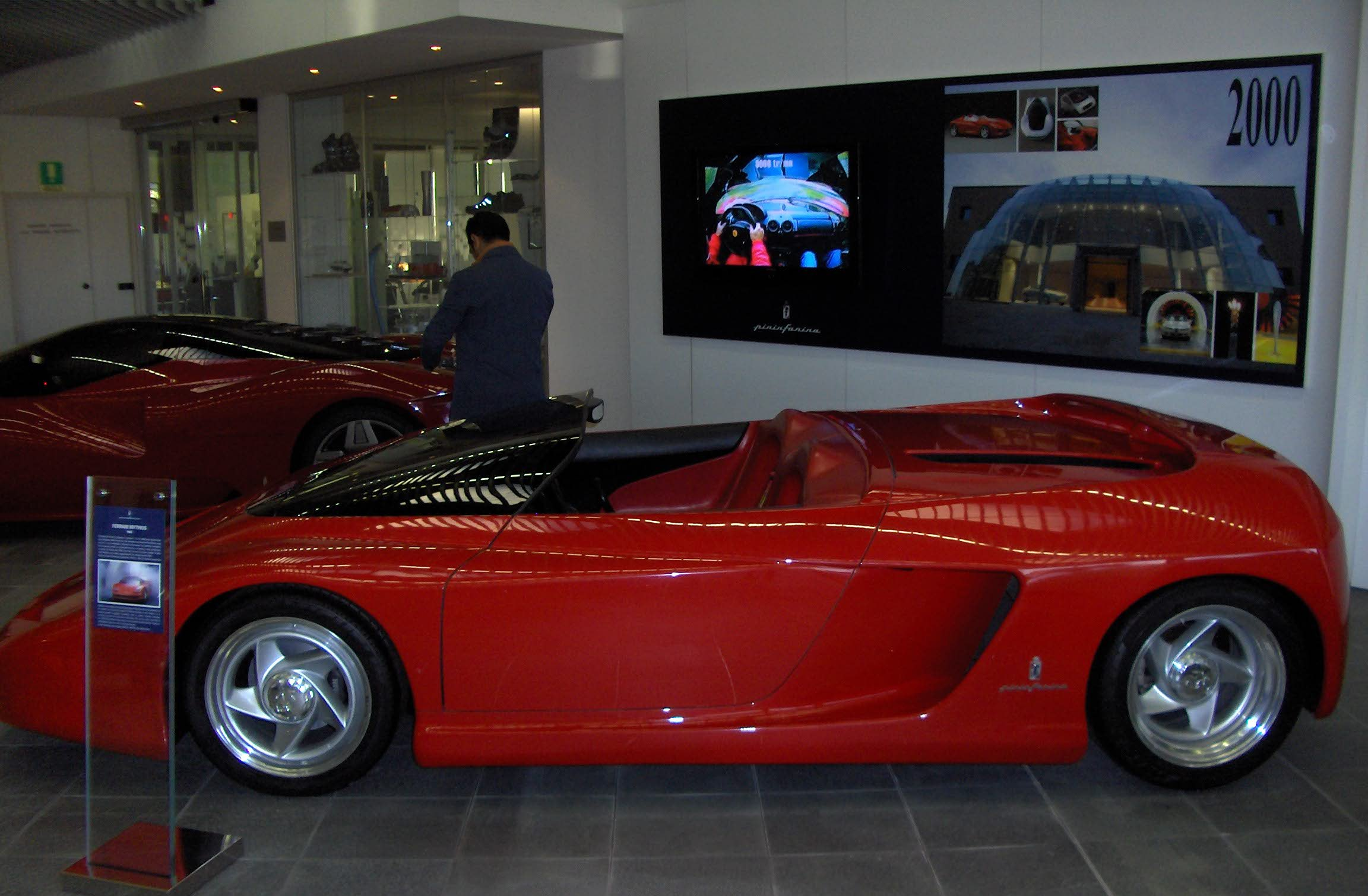 Ferrari Mithos